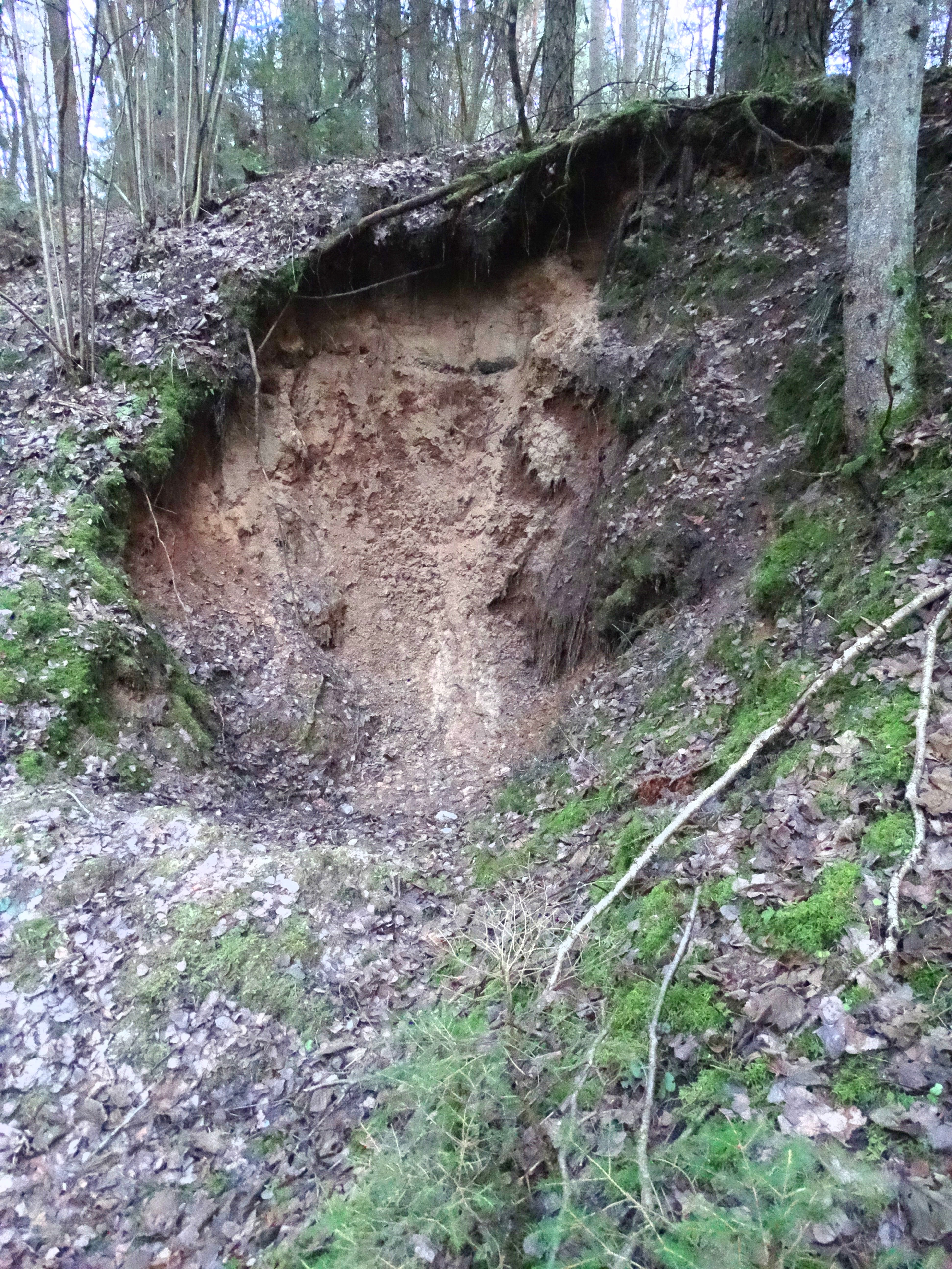 Snaigupėlė outcrop, by Druskininkai, Lithuania